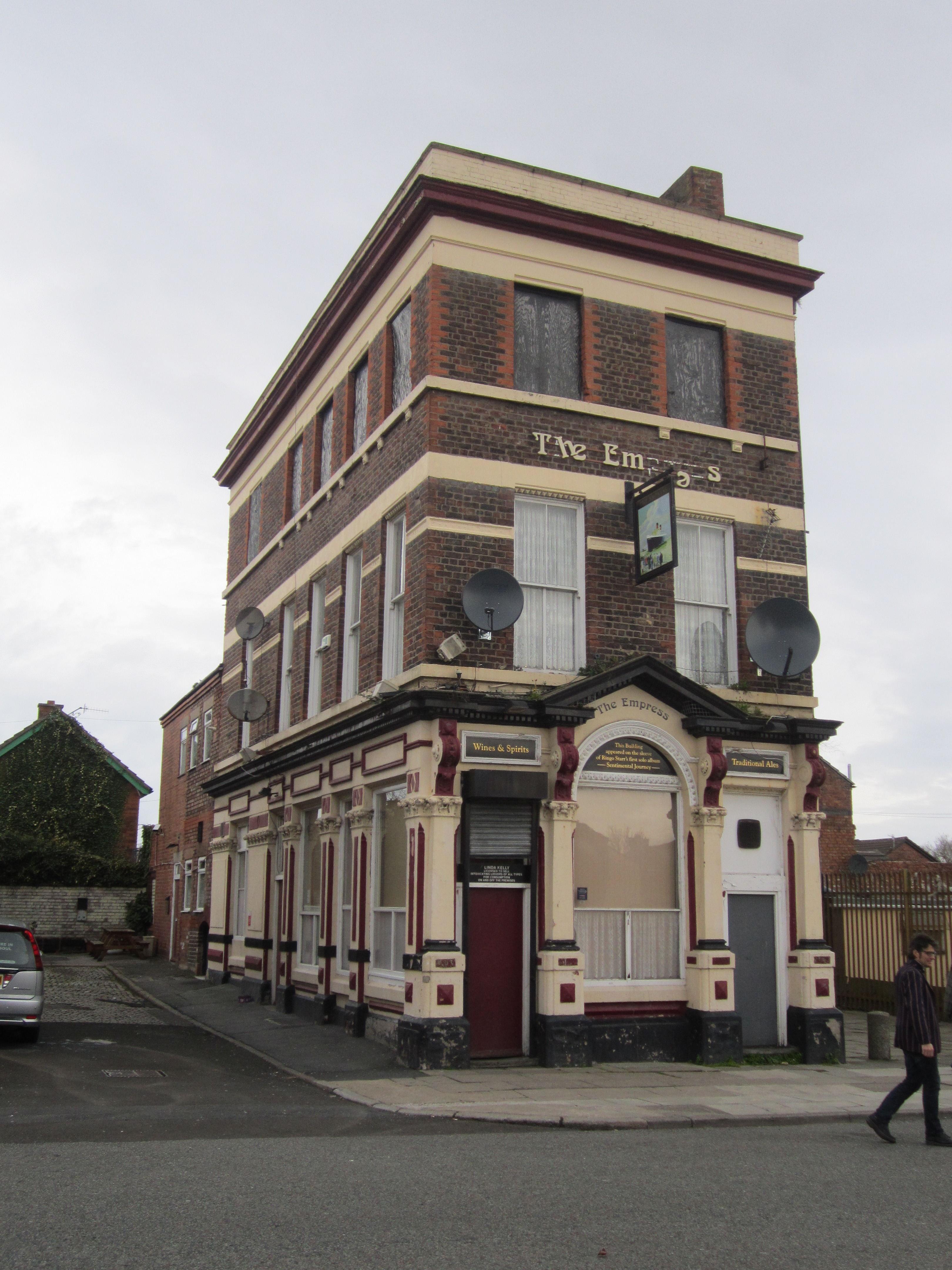 The Empress pub, High Park Street, Toxteth, Liverpool, England.